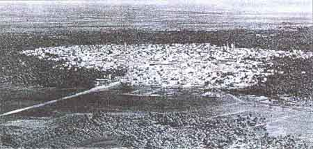 Karbala City in 1918